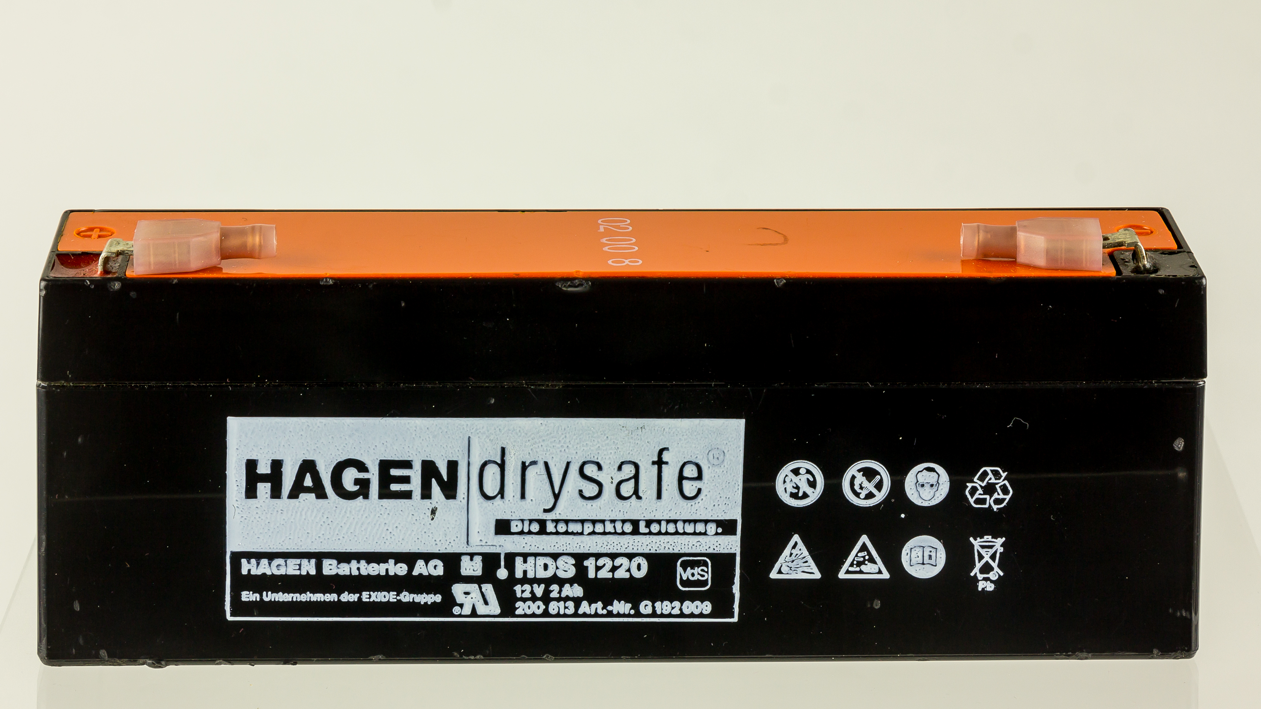 HAGEN drysafe HDS 1220 - Maintenance-free sealed lead-acid batteries